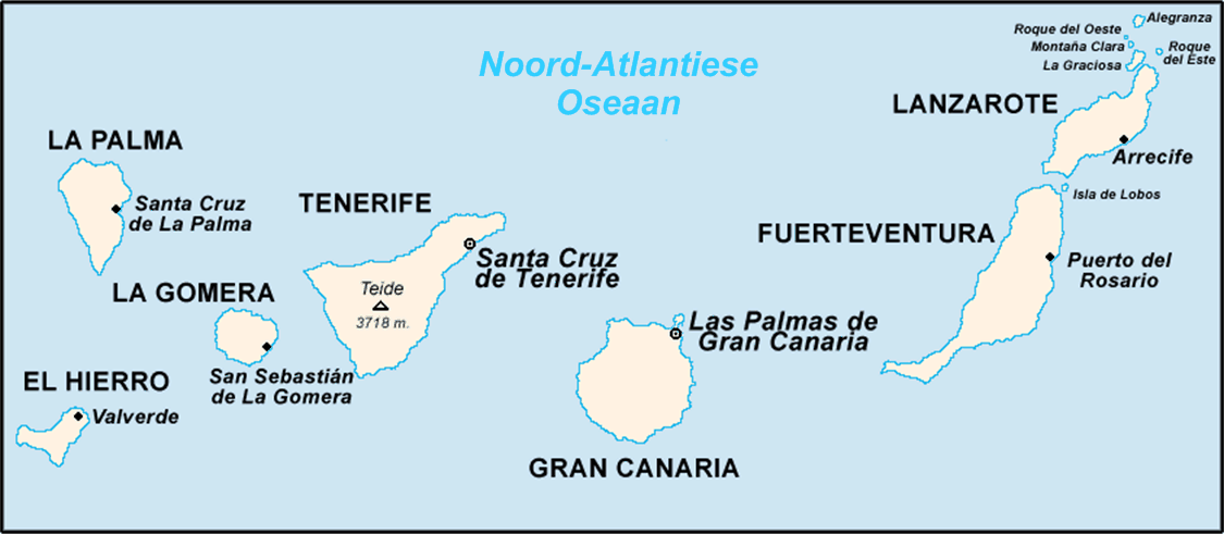 An Afrikaans map of the Canary Islands.